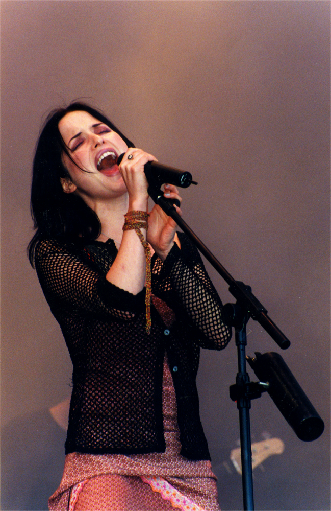 Andrea Corr at Glastonbury Festival, June 27, 1999.